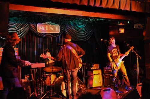 Back Door Slam - Live in Concert (photo by Scott Dudelson)